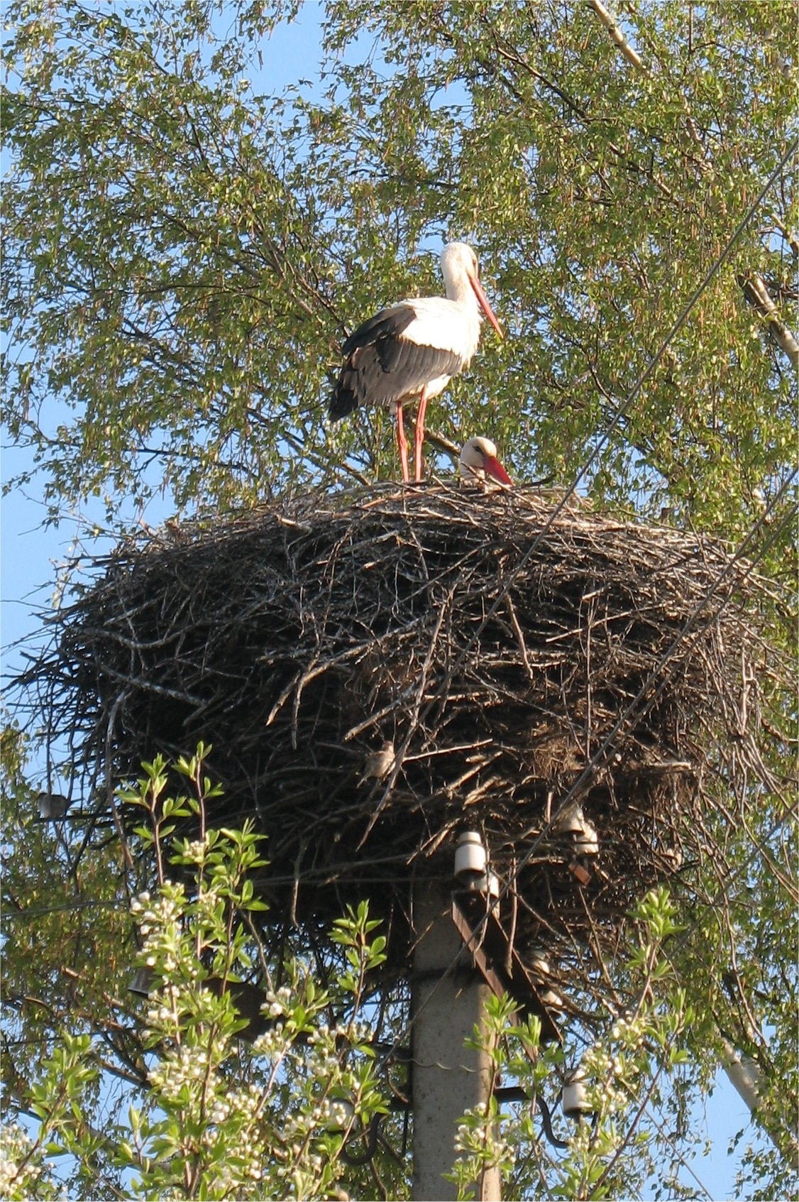 White storks on their nest in Belarus, in April-May 2009. House or Eurasian Tree Sparrows, and sparrow nests, can be seen at the bottom of the nest.